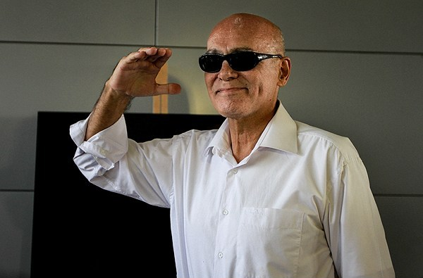 Jamshid Hashempour